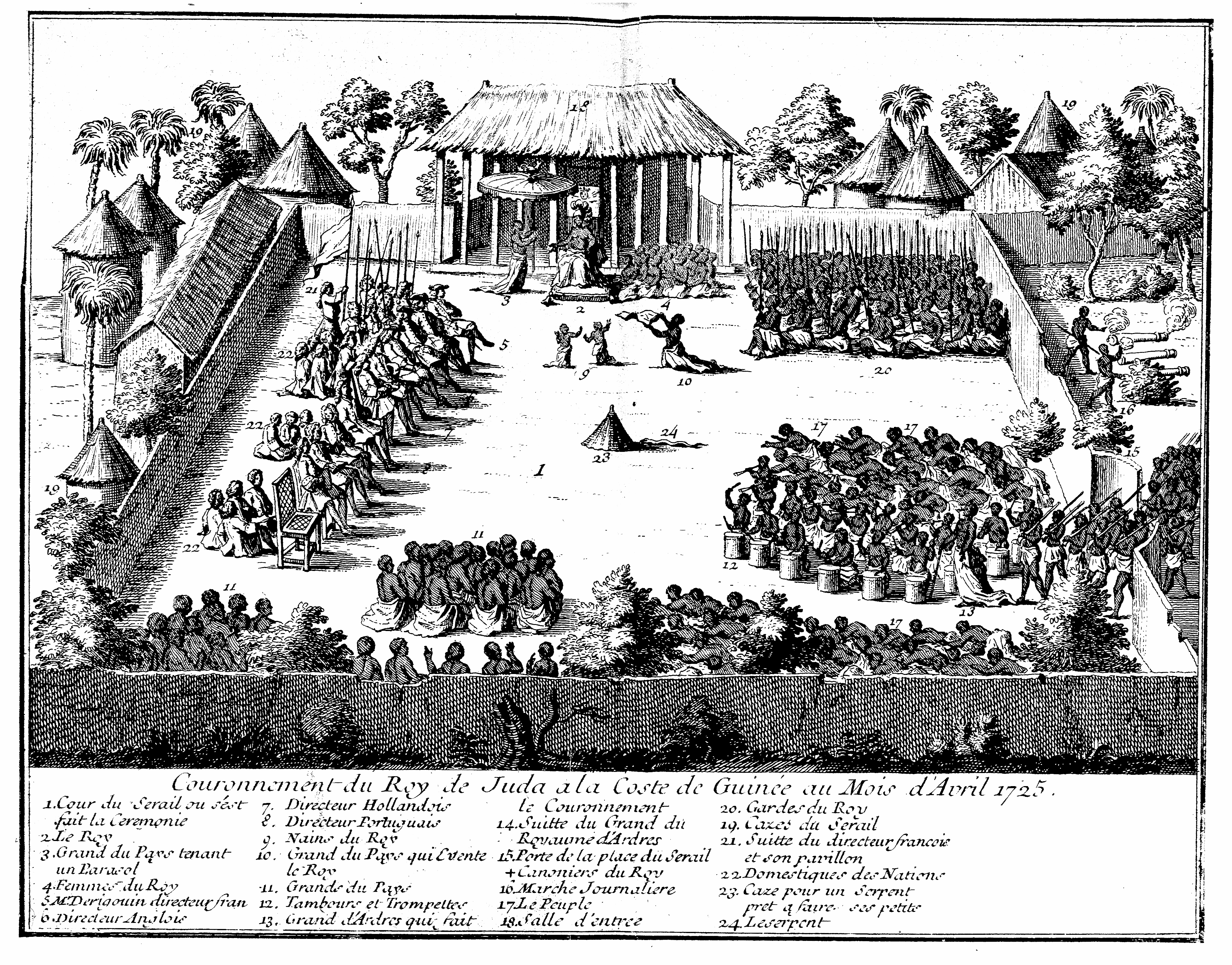 Coronation ceremony for the King of Whydah on the Guinea Coast in April 1725 (etching)